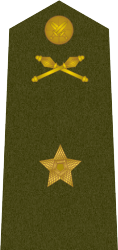 Czechoslovak Army "Under lieutenant" (OF-1c) shoulder insignia (1960-1992), land forces